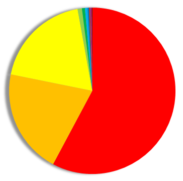 Expressed as a pie chart in the Tokyo gubernatorial election in 1987, the number of votes for each candidate.